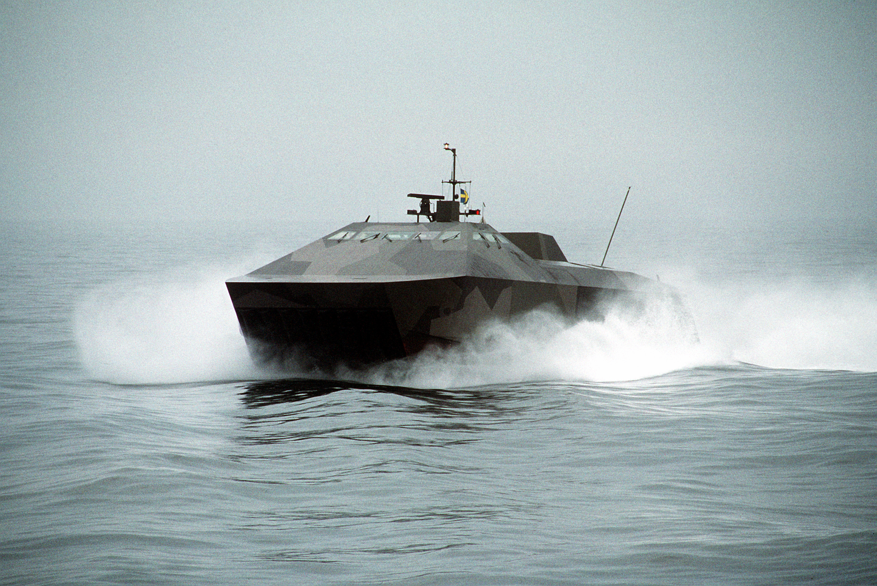 A port bow view of the swedish signature-suppression air cushion vehicle Smyge underway during Phase 1 of BALTOPS 94. Exercise Baltic Operation '94 is a U.S. sponsored exercise.